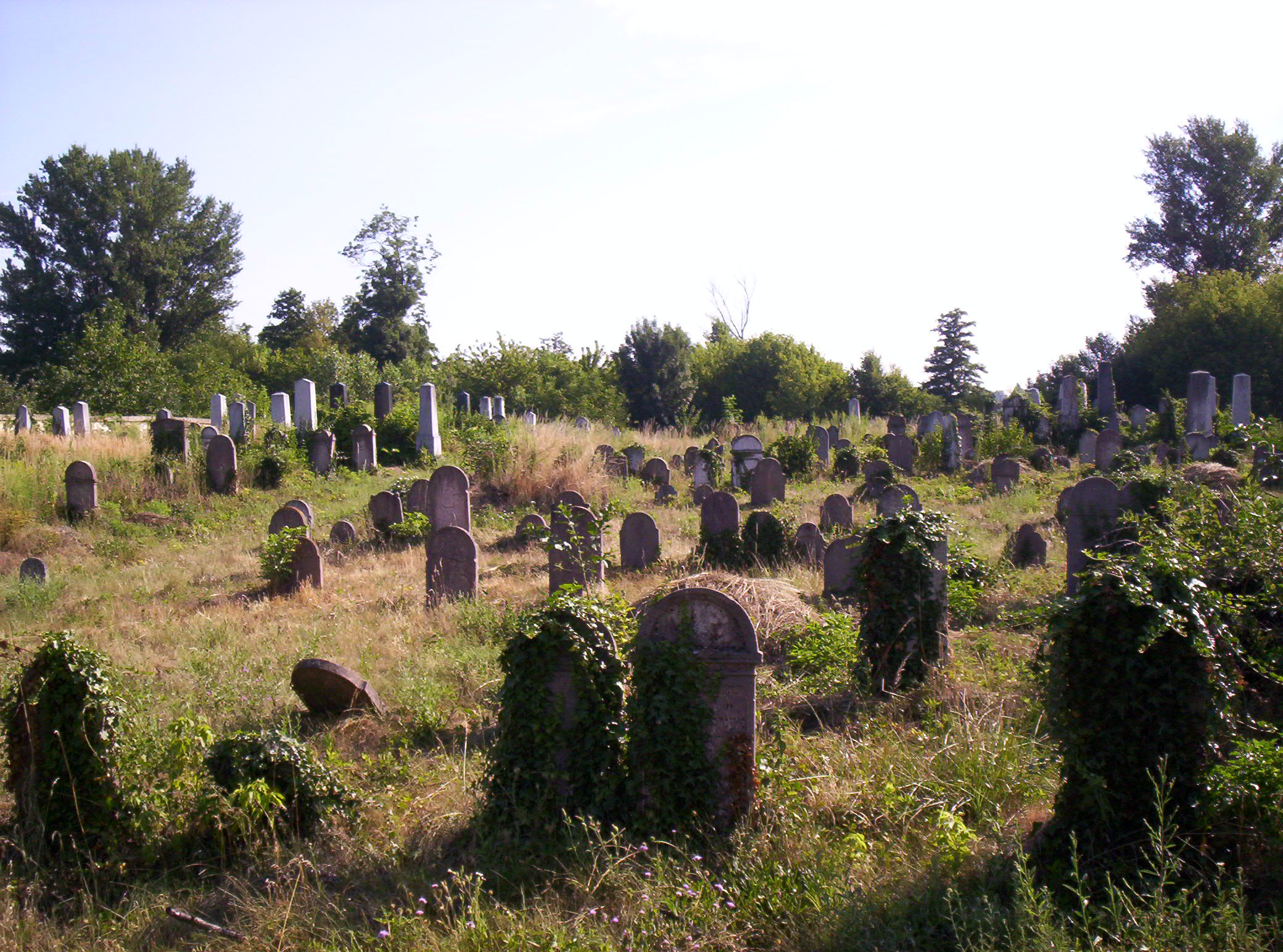 The old Jewish cemetery in Pápa, Hungary A pápai régi zsidó temető